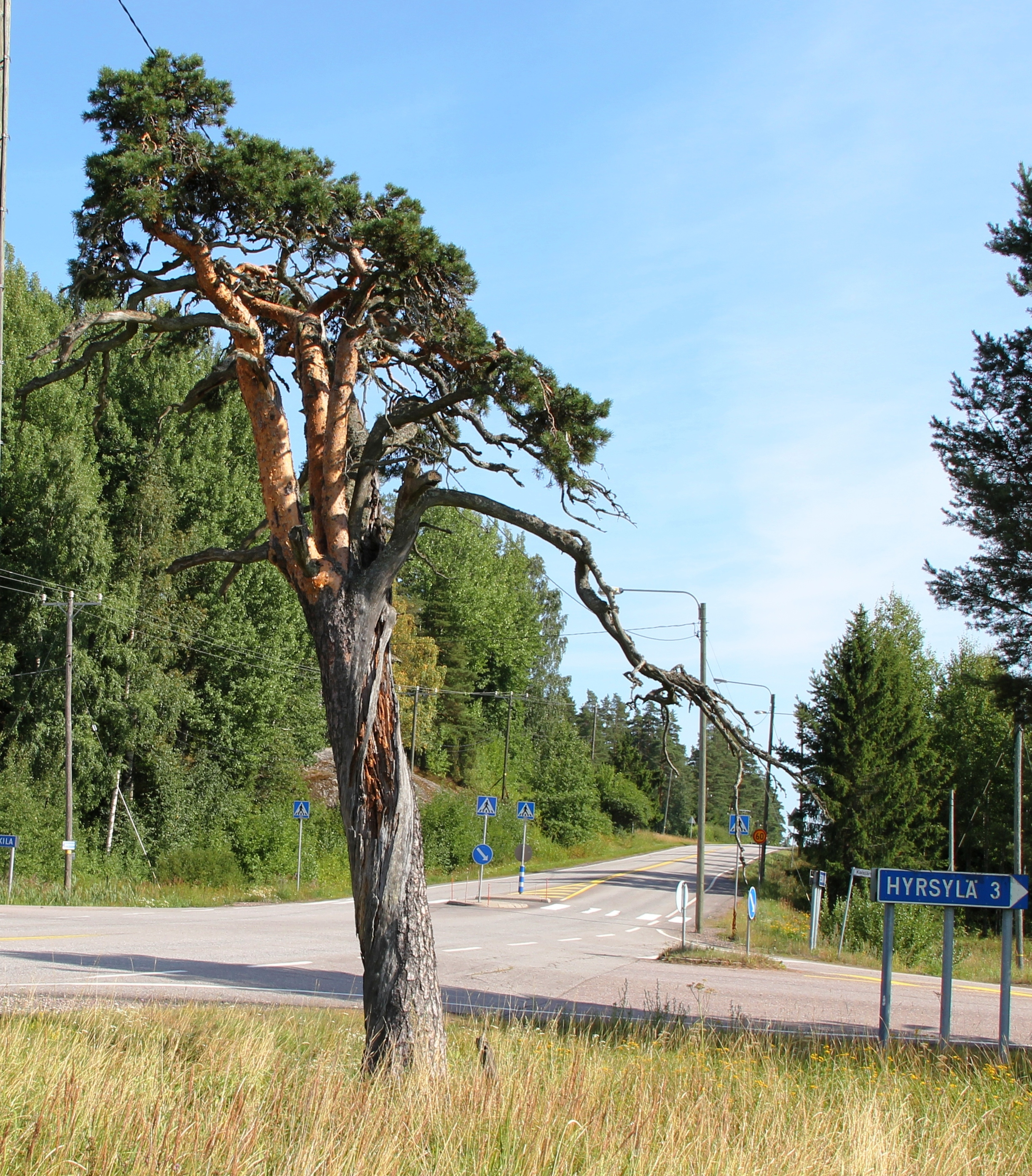 Pine (Pinus sylvestris) in Koisjärvi, Pusula, Lohja Finland